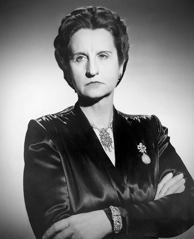 Promotional photograph of actor Hope Emerson (1940s)